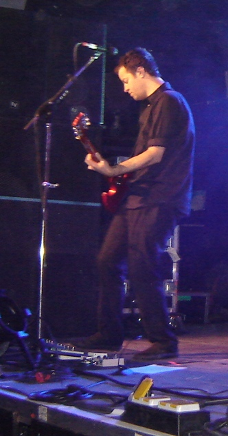 Tom Linton, Jimmy Eat World guitarist, during a gig at Schlachthof, in Wiesbaden, Germany.